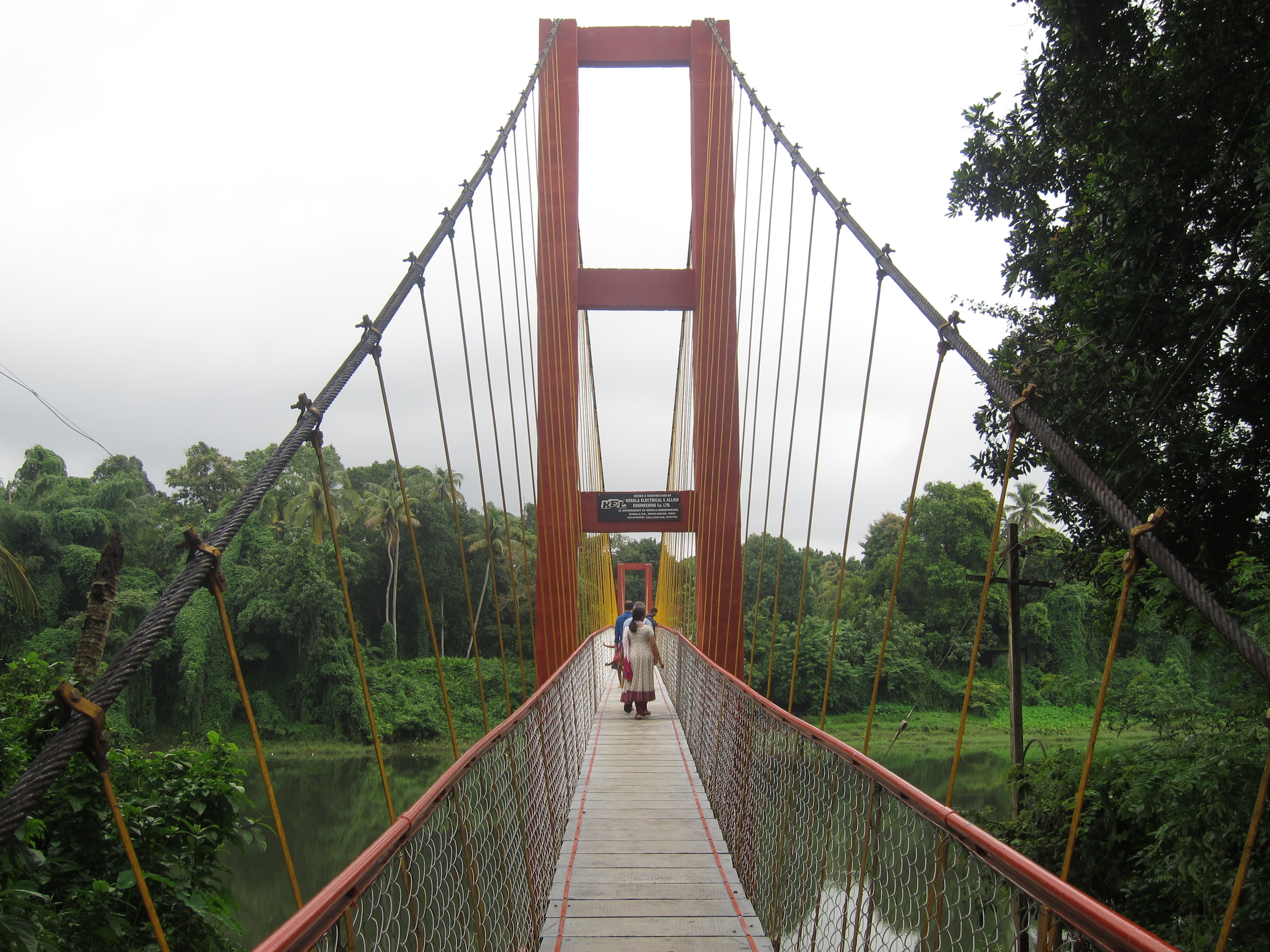 Thaikkoottam Suspension Bridge, Kadukkutty Panjchayat, Thrissur തൃശ്ശൂർ ജില്ലയിൽ കാടുക്കുറ്റി പഞ്ചായത്തിലെ തൈക്കൂട്ടം കടവിൽ നിർമ്മിച്ചിരിക്കുന്നതാണ് തൈക്കൂട്ടം തൂക്കുപാലം... അന്നനാടിനേയും കാടുകുറ്റി ഗ്രാമത്തേയും ബന്ധിപ്പിക്കുന്ന ഈ പാലം തൈക്കൂട്ടം കടവിലാണ് നിർമിച്ചിരിക്കുന്നത്...